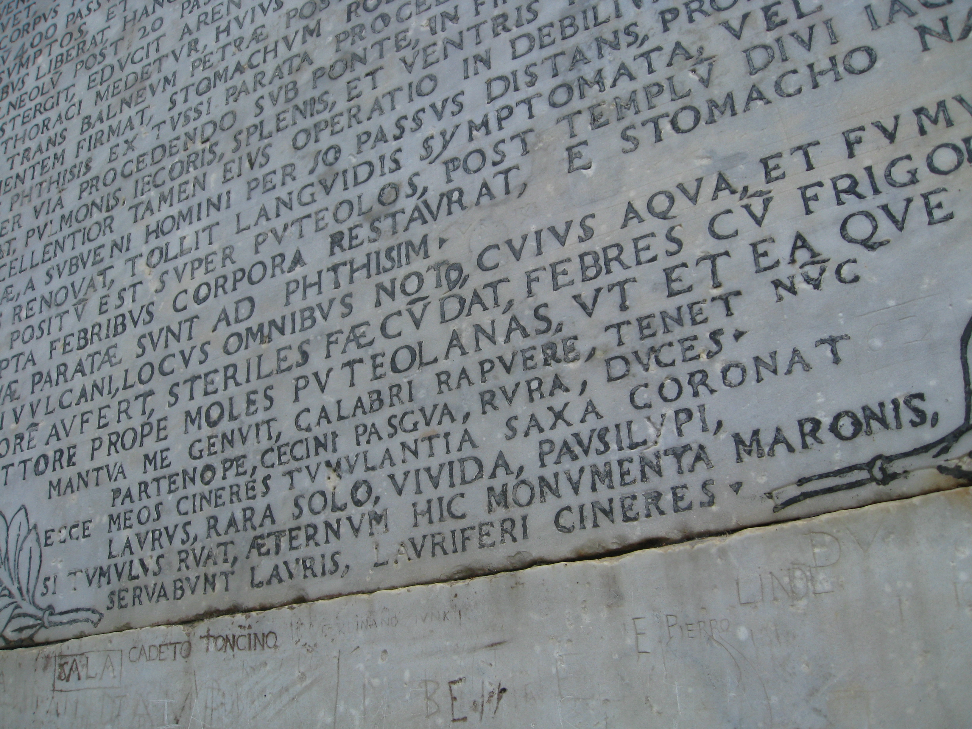 Inscription plaque at Vergil's tomb, Mergellina, Naples, Italy